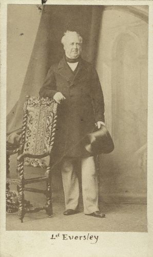 Charles Shaw-Lefevre, Viscount Eversley